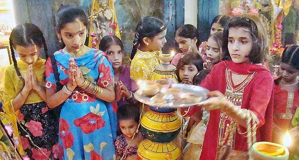 APP77-17HYDERABAD: October 17 – Hindu community children busy in their religious rituals in the temple during the Hindu community festival Dewali.